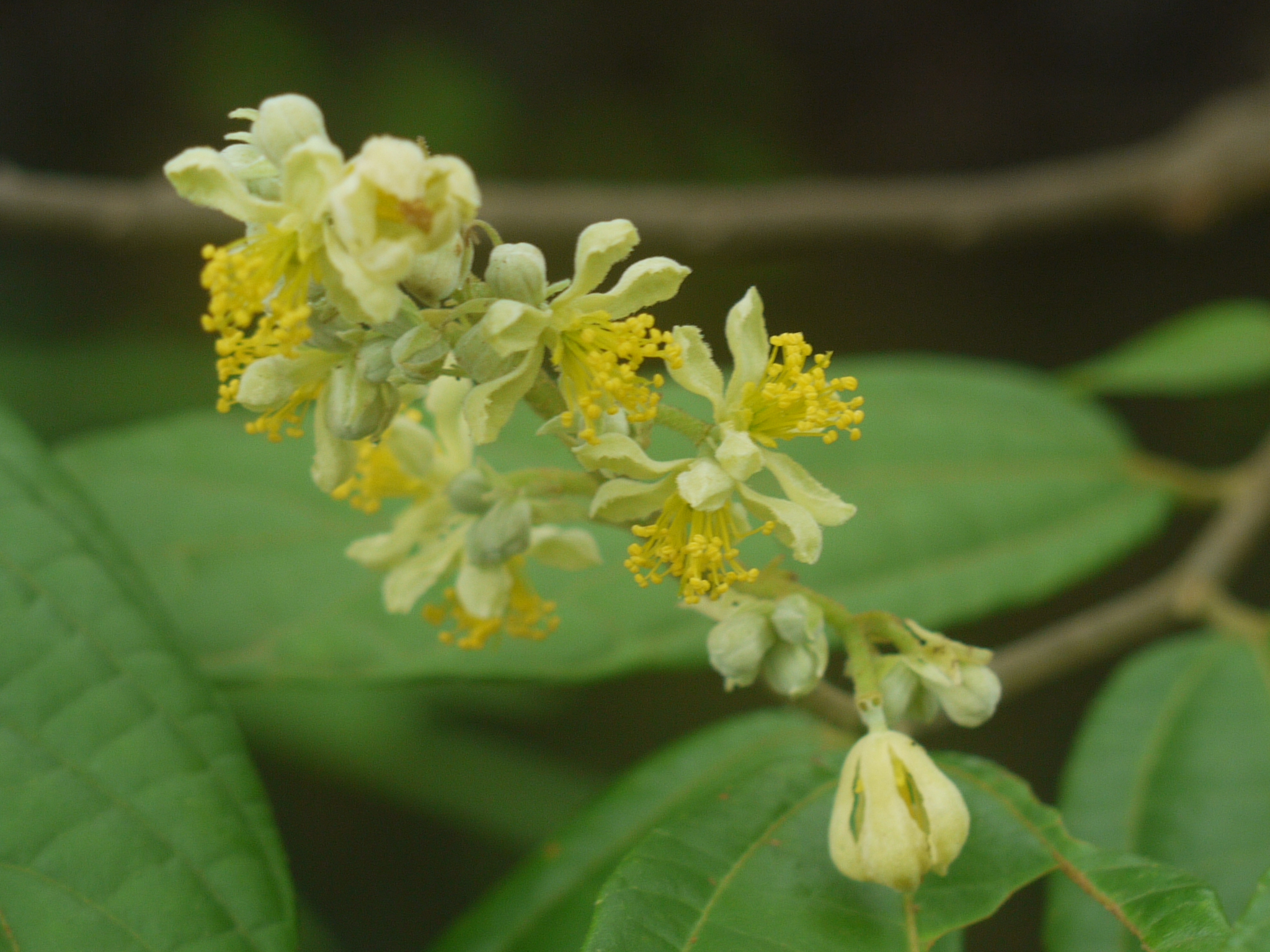 Tiliaceae (phalsa family) » Microcos paniculata ¿ my-kro-KOS ? -- from the Greek mikros (small), and kos (ornament) pan-ick-yoo-LAY-tuh -- referring to the flower clusters (panicles) commonly known as: microcos, panicled Indian linden • Assamese: pisoli, thengprenkeorong • Bengali: আসার asar • Garo: borsubret, bolchibins • Hindi: शिरल shiral • Kannada: ಅಭ್ರಂಗ abhranga • Khasi: dieng sohdkhar, dieng sohlienghadem • Konkani: असळी asali, चिवरा chivra • Malayalam: കൊട്ടക്ക kottakka • Marathi: हसोळी hasoli, शिरळा shirala • Tamil: தடம் tatam, விசாலம் visalam Native of: s China, Indian Subcontinent, Indo-China, Malesia References: Flowers of India • NPGS / GRIN • eFlora • ENVIS - FRLHT • DDSA